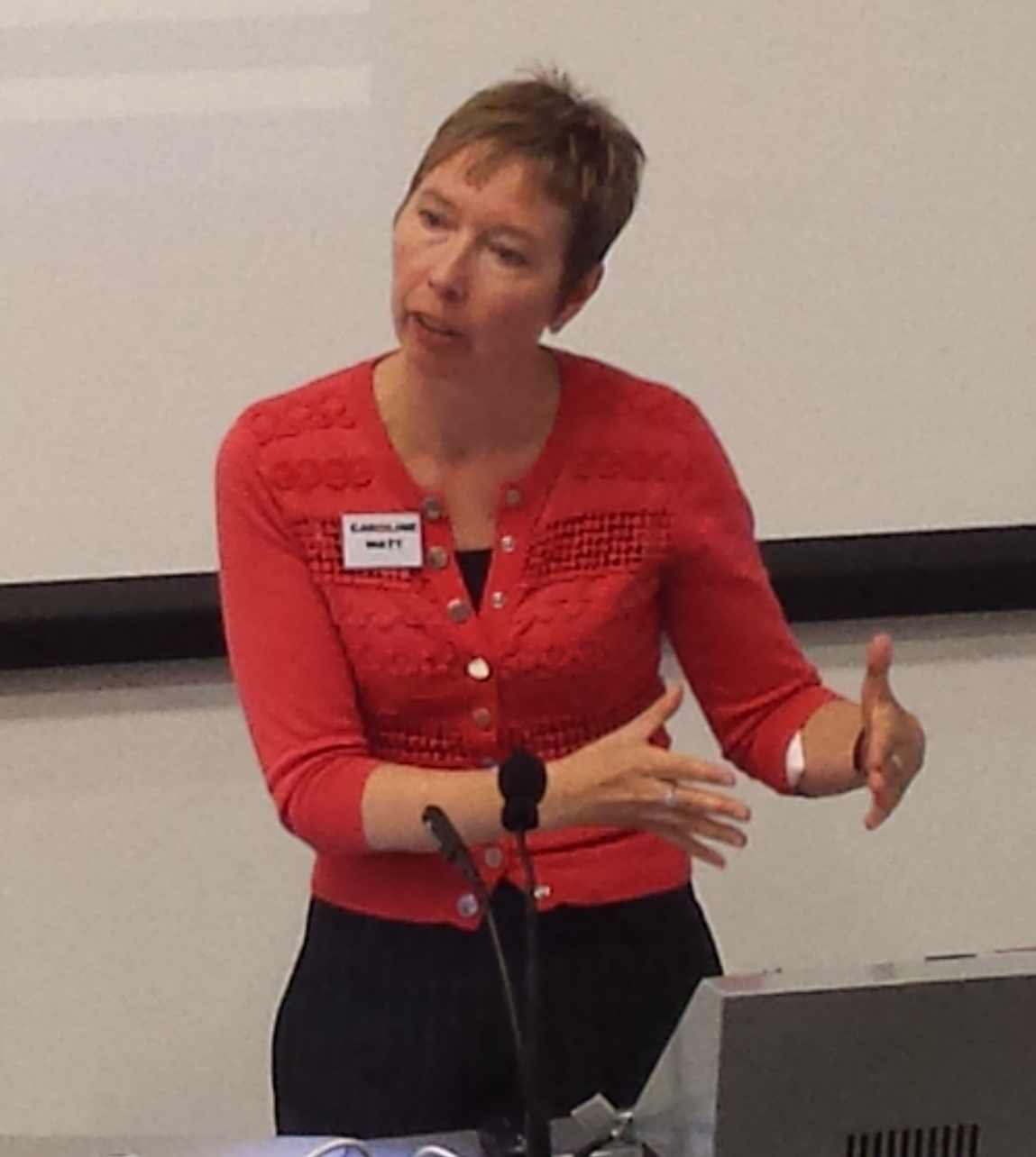 Caroline Watt lectures about the University of Edinburgh’s Koestler Parapsychology Unit during the European Skeptics Congress 2015.